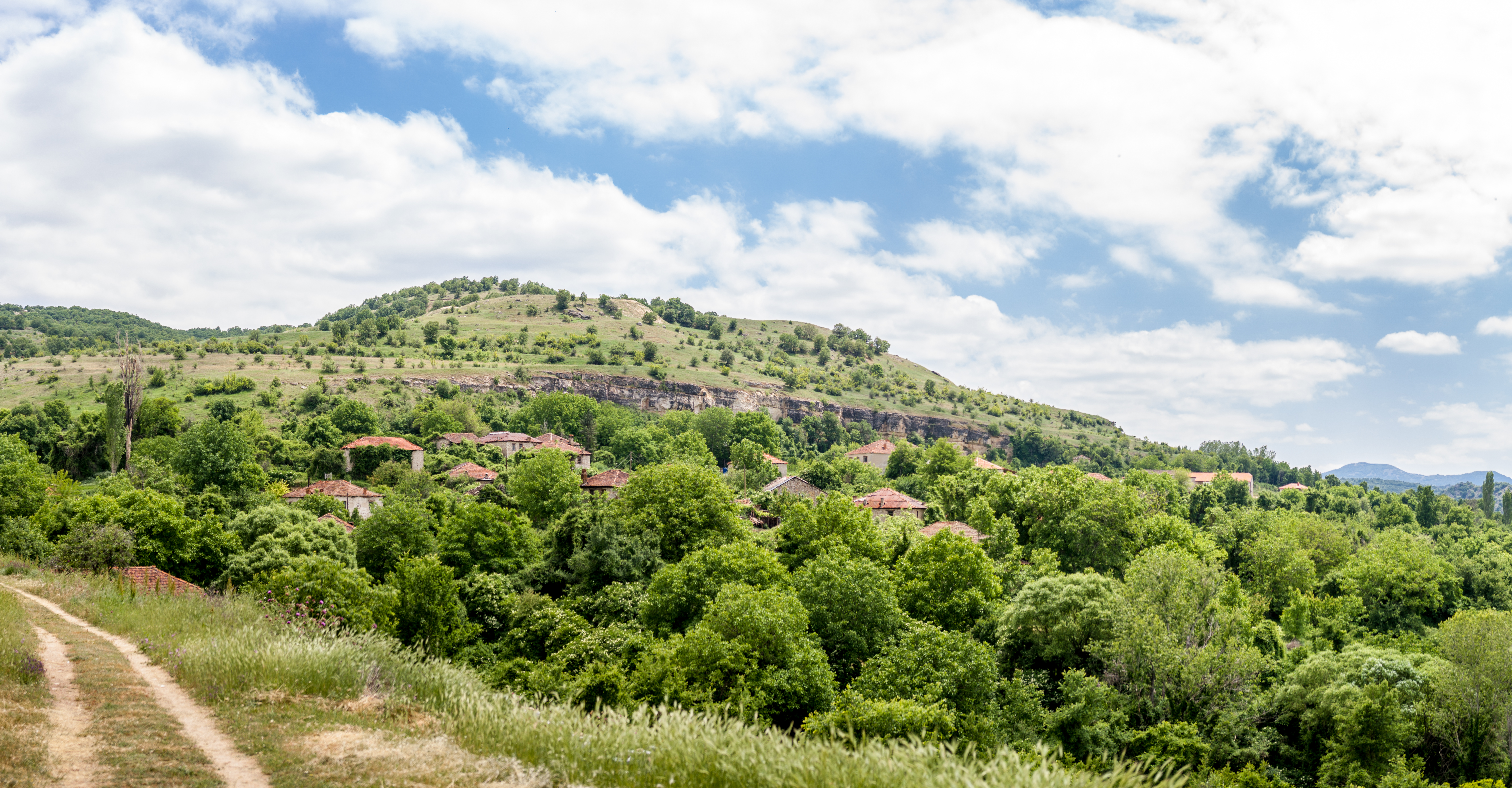 Panoramic photo of the village Manastir